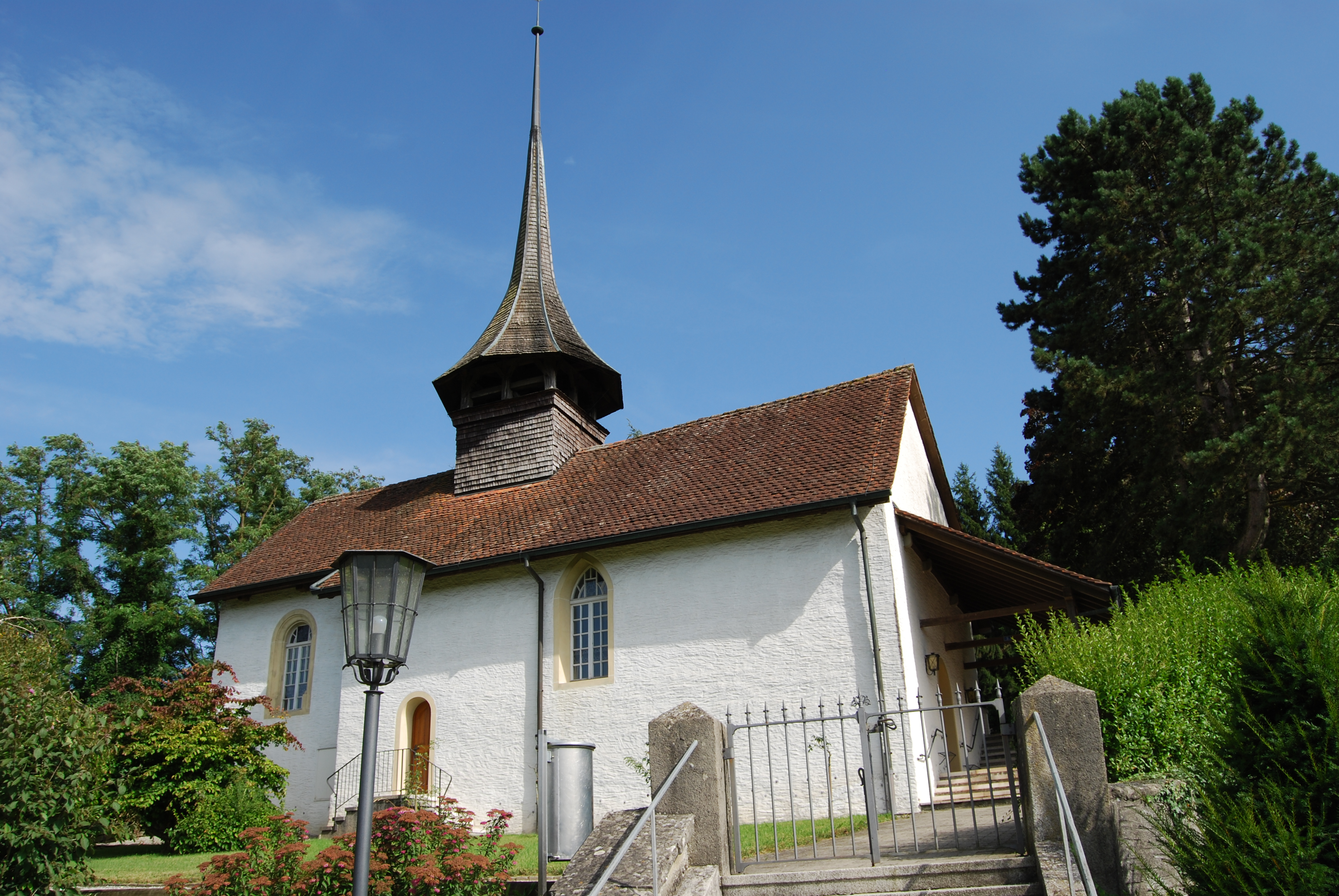 Church of Bargen, canton of Bern, Switzerland